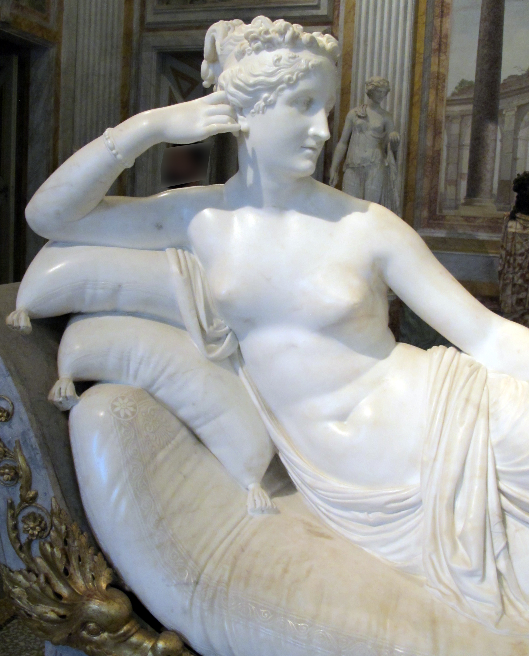 Sculptures in the Galleria Borghese (Rome)